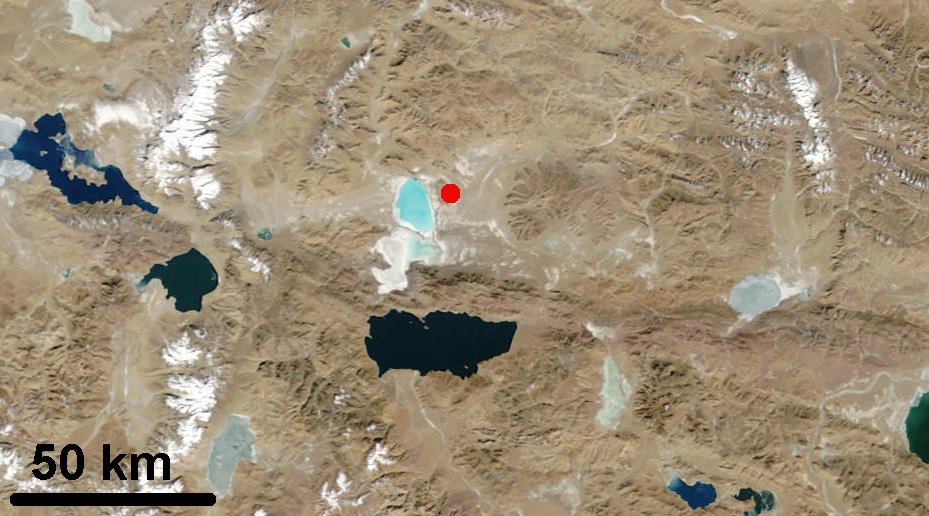 Map of Tibet showing the Ngangle Ringco Lake on the left and the Zabuye Lake marked with the red dot